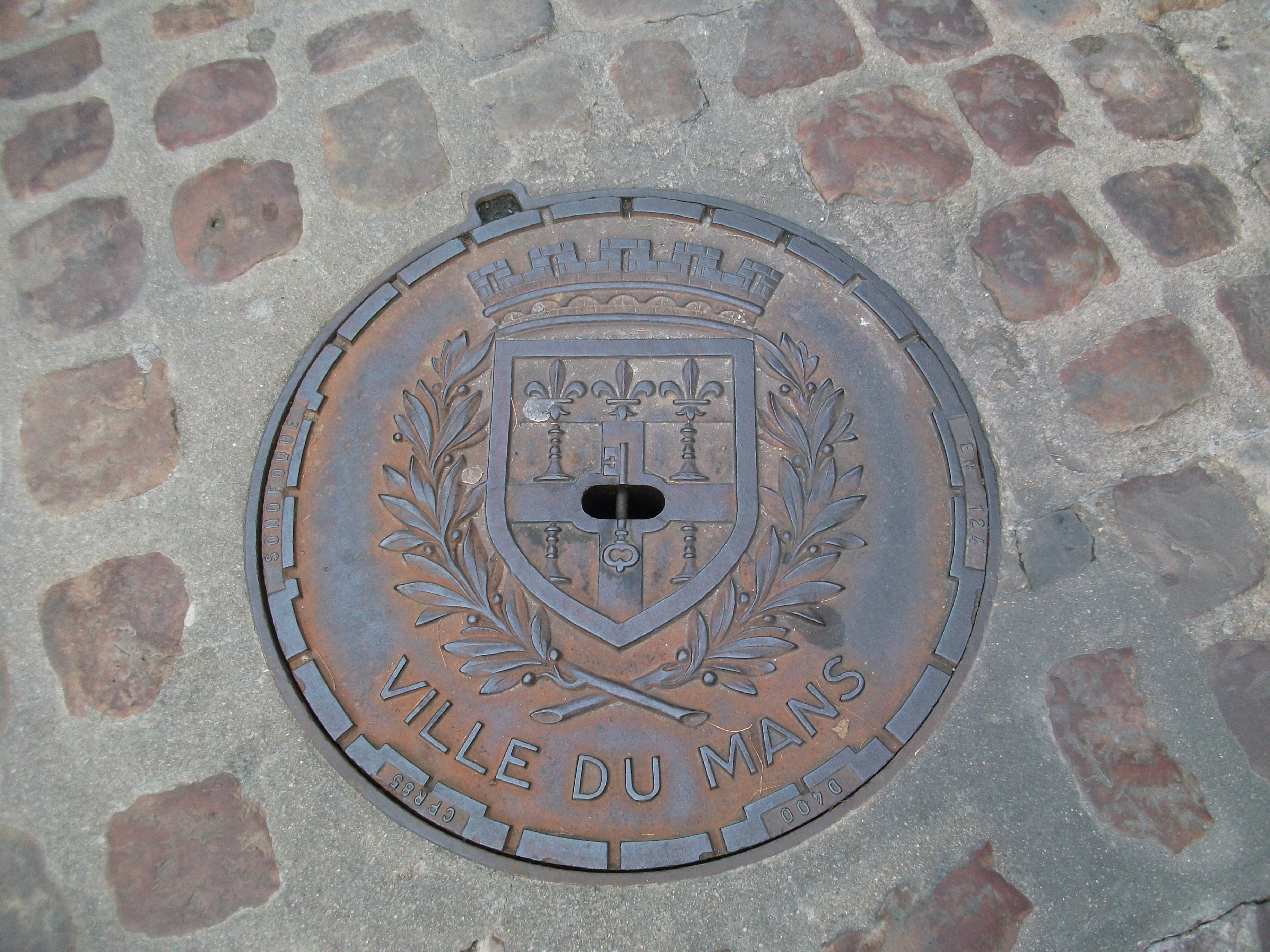 Manhole cover displaying the coat-of-arms of Le Mans